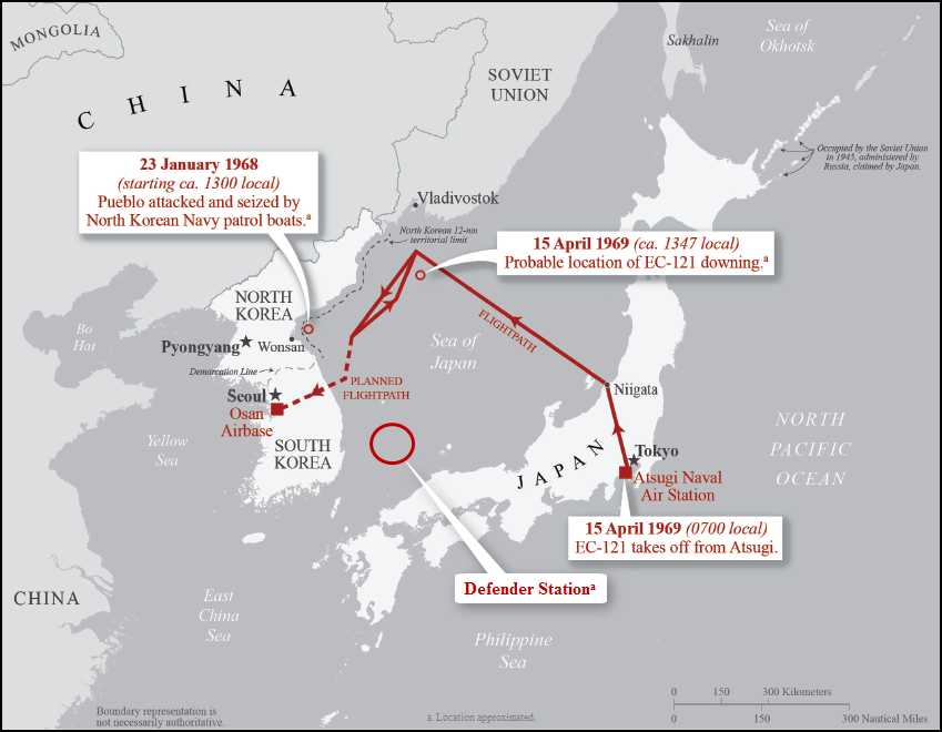 Cropped and modified version map from "Historical Crises in North Korea Lessons from the USS Pueblo and EC-121 Incidents—1968 and 1969" by Richard A. Mobley from Studies in Intelligence Volume 59, Number 1 (March 2015)